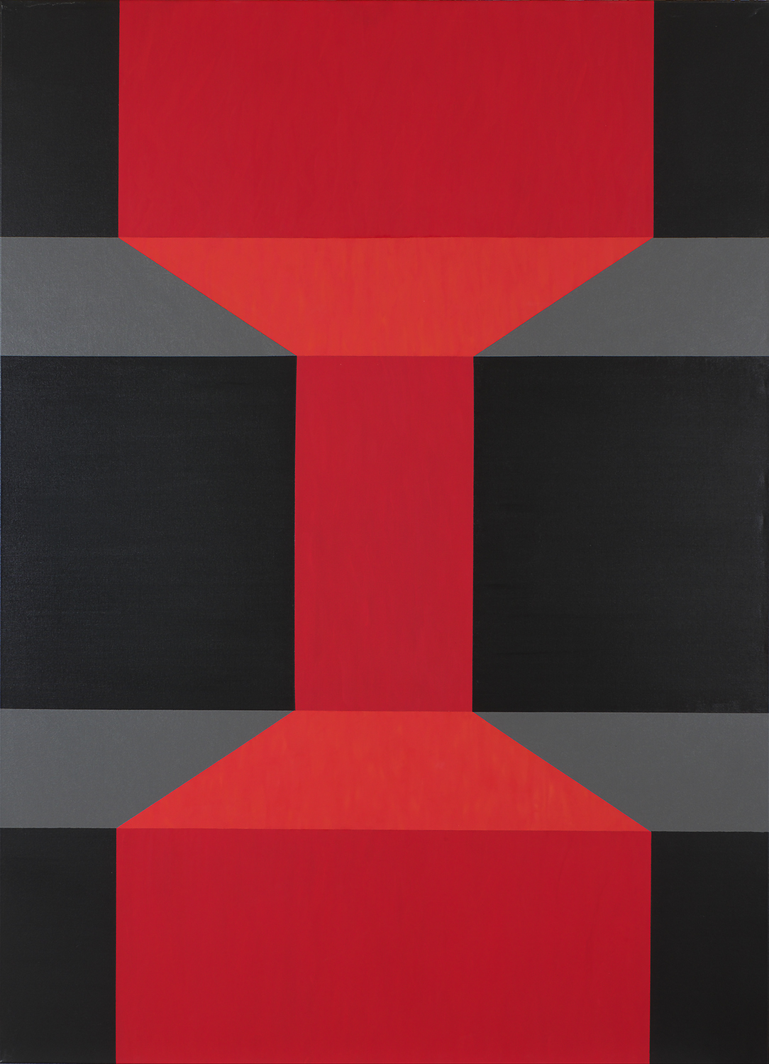 Ryszard Hunger, Tryptyk 2, 2015, acrylic on canvas, 180x130 cm